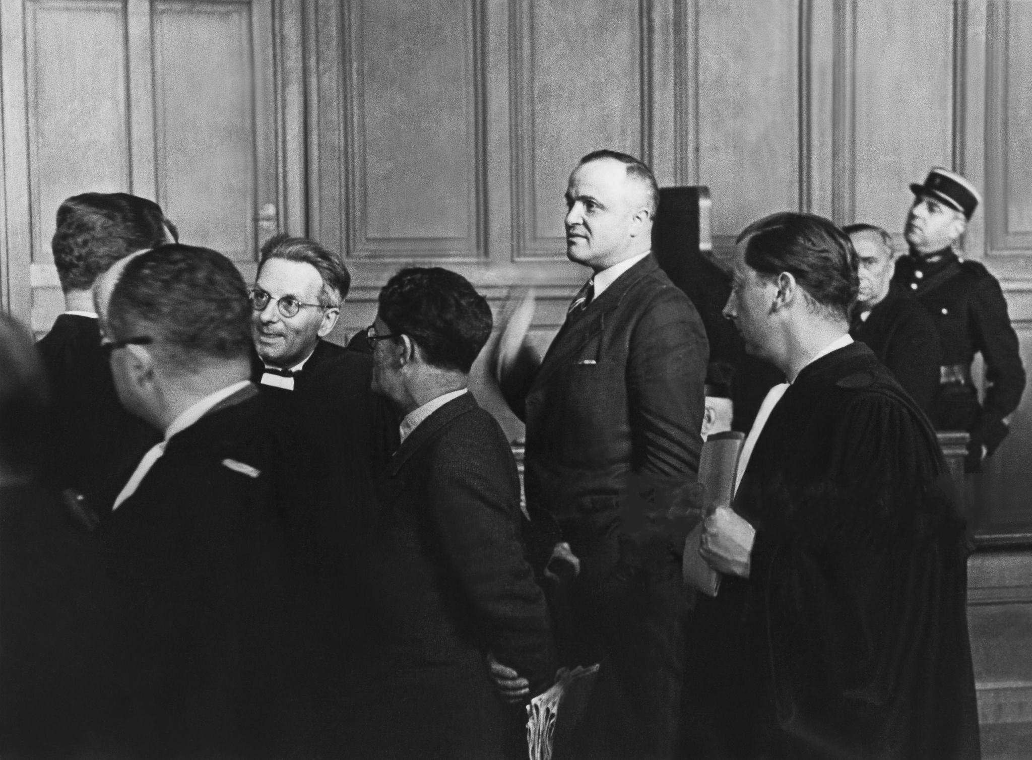 Appearance Of Louis Darquier De Pellepoix in July 1939